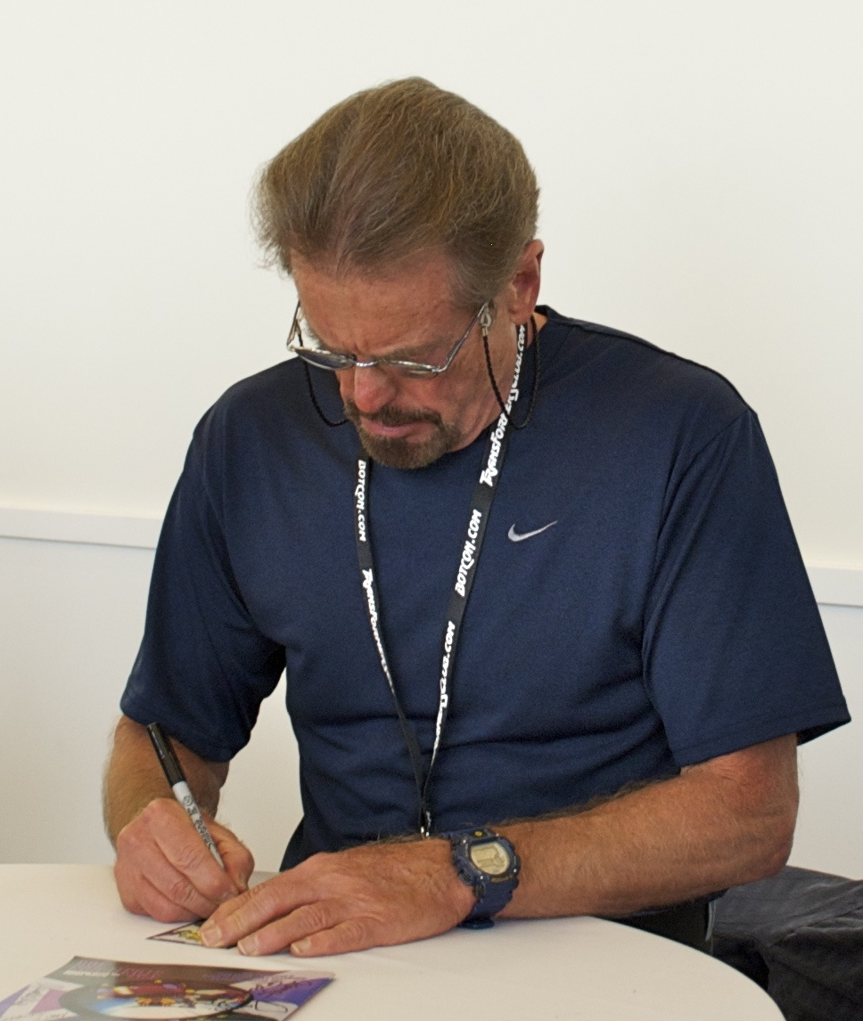 Cropped version of Neil Ross.jpg